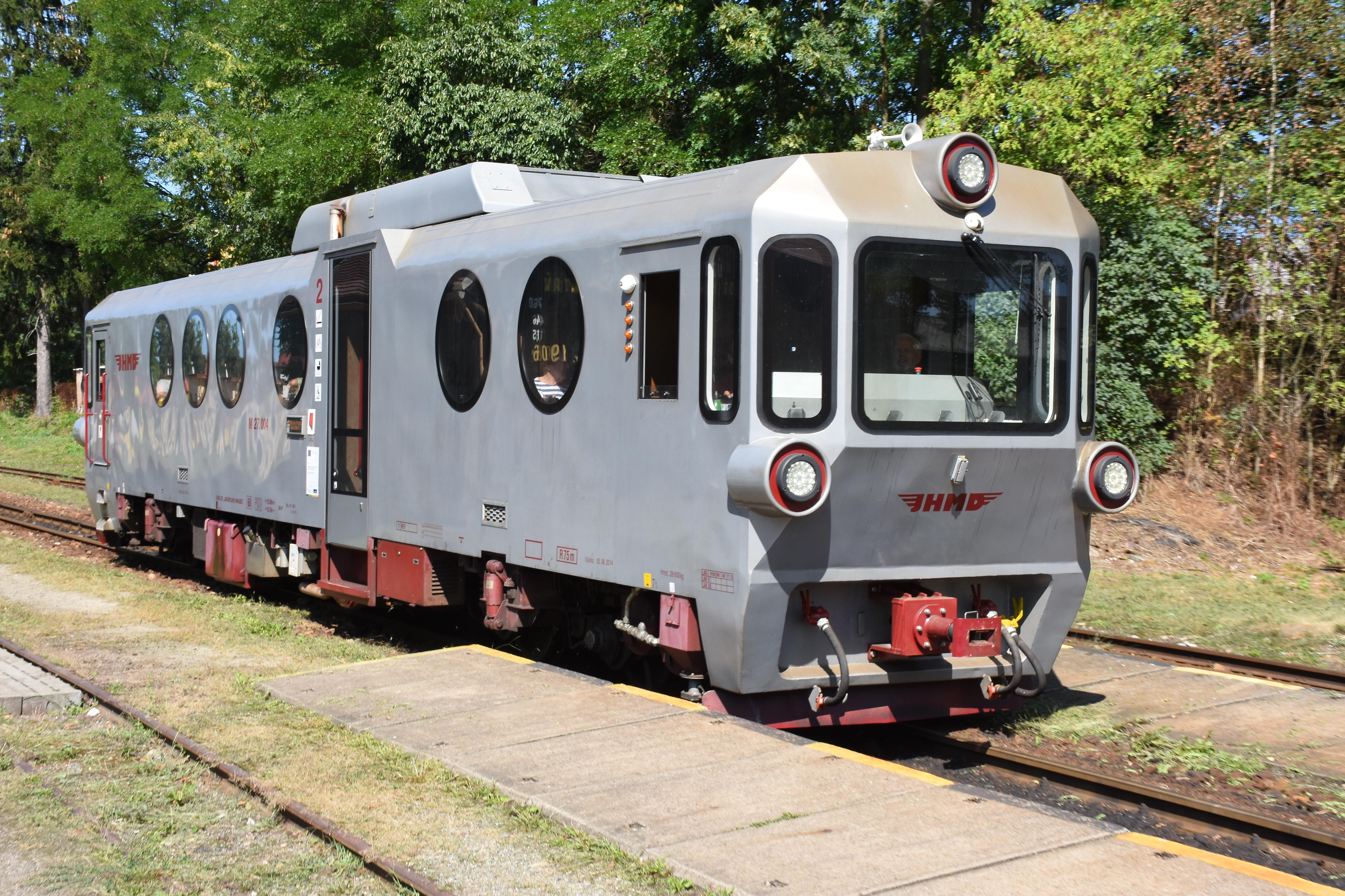 Motor coach 805.9, Jindřichův Hradec local railways